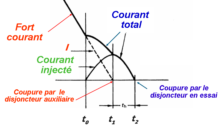 Current injection method for synthetic testing of high voltage circuit breakers